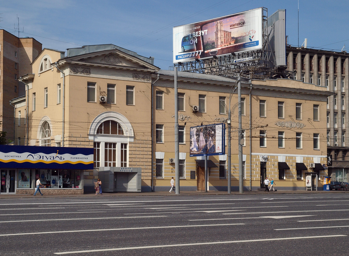 Zubovsky Boulevard, Moscow.